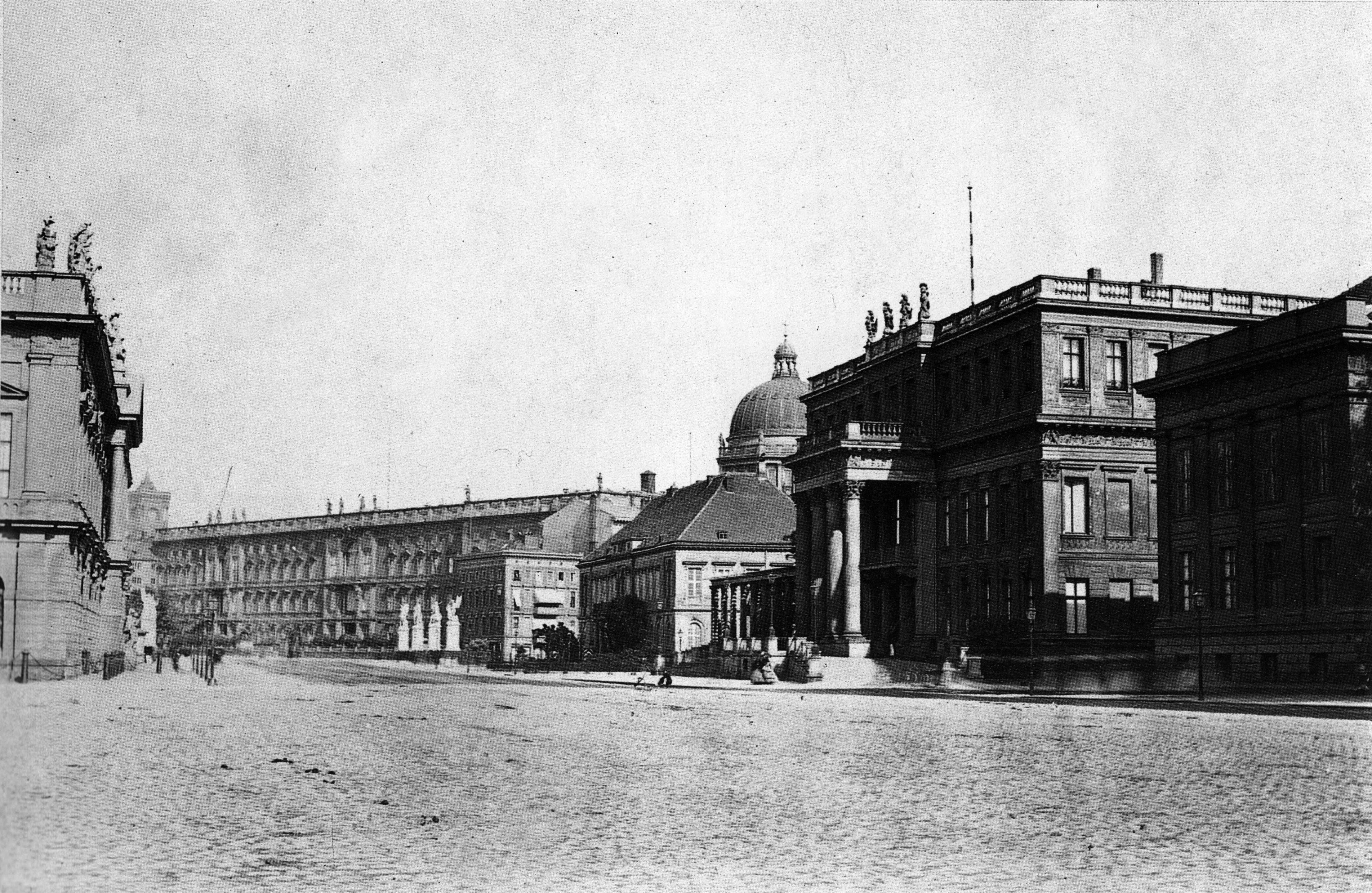 The northern terminus of the Unter den Linden boulevard in Dorotheenstadt, Berlin (now in Mitte district). On the right lies the Kronprinzenpalais (“crown prince palace”), in the background the Berlin City Palace.